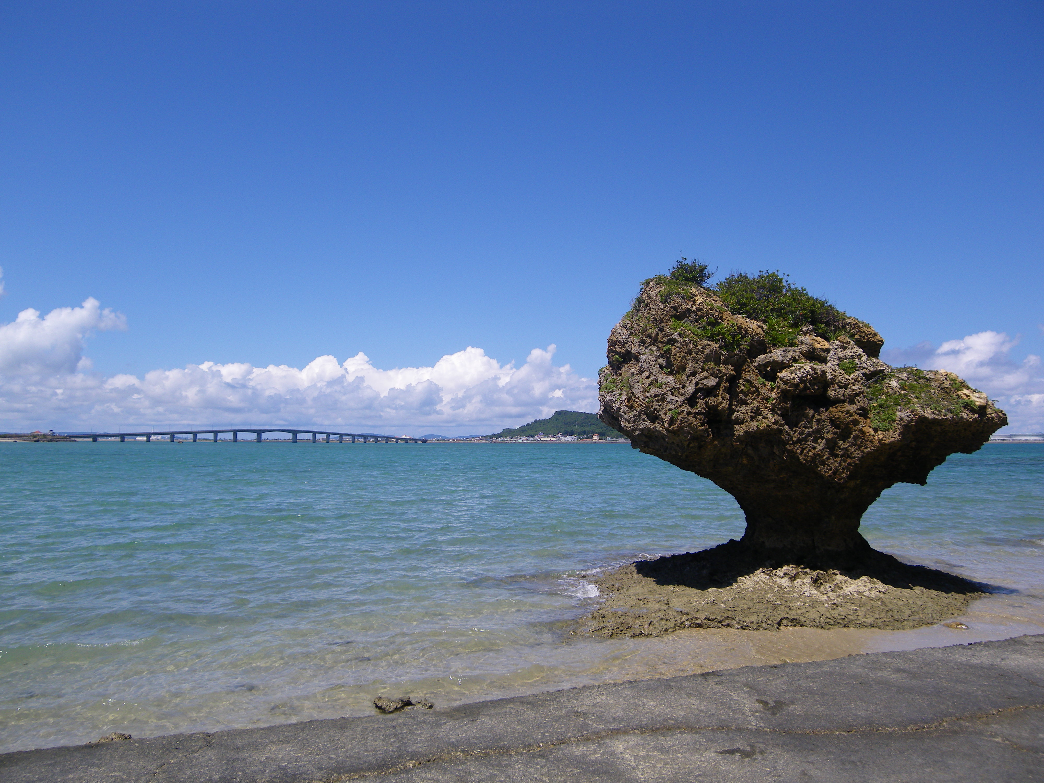 The strangely shaped rock (right) and Hamahiga Bridge (left), taken photo from the Tomb of Amamichu.